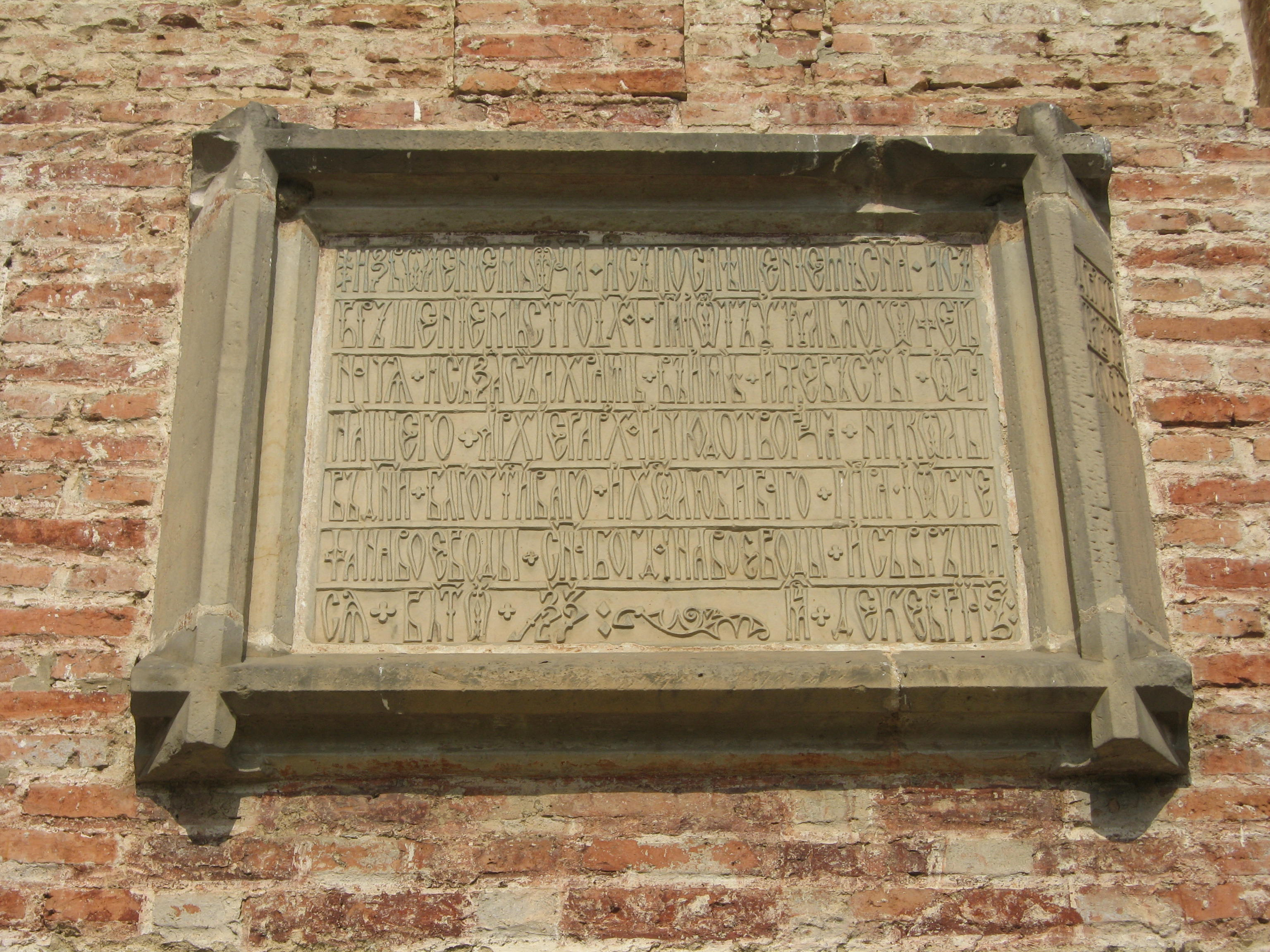 Biserica Sfântul Nicolae din Bălineşti